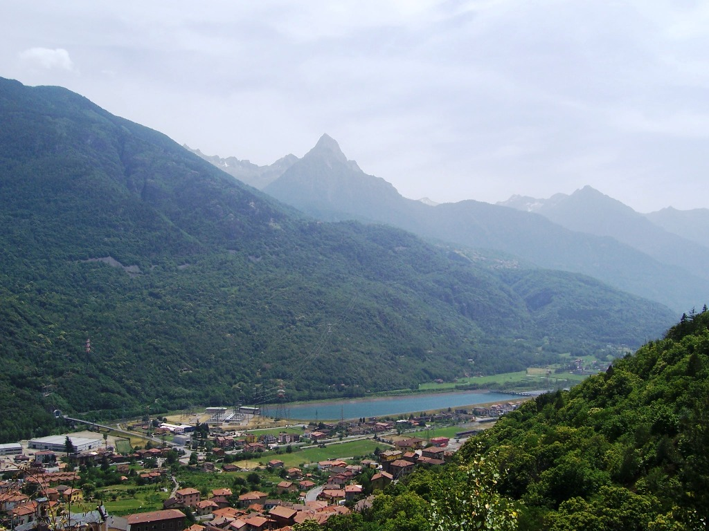 Scianica of Sellero, Val Camonica, Italia